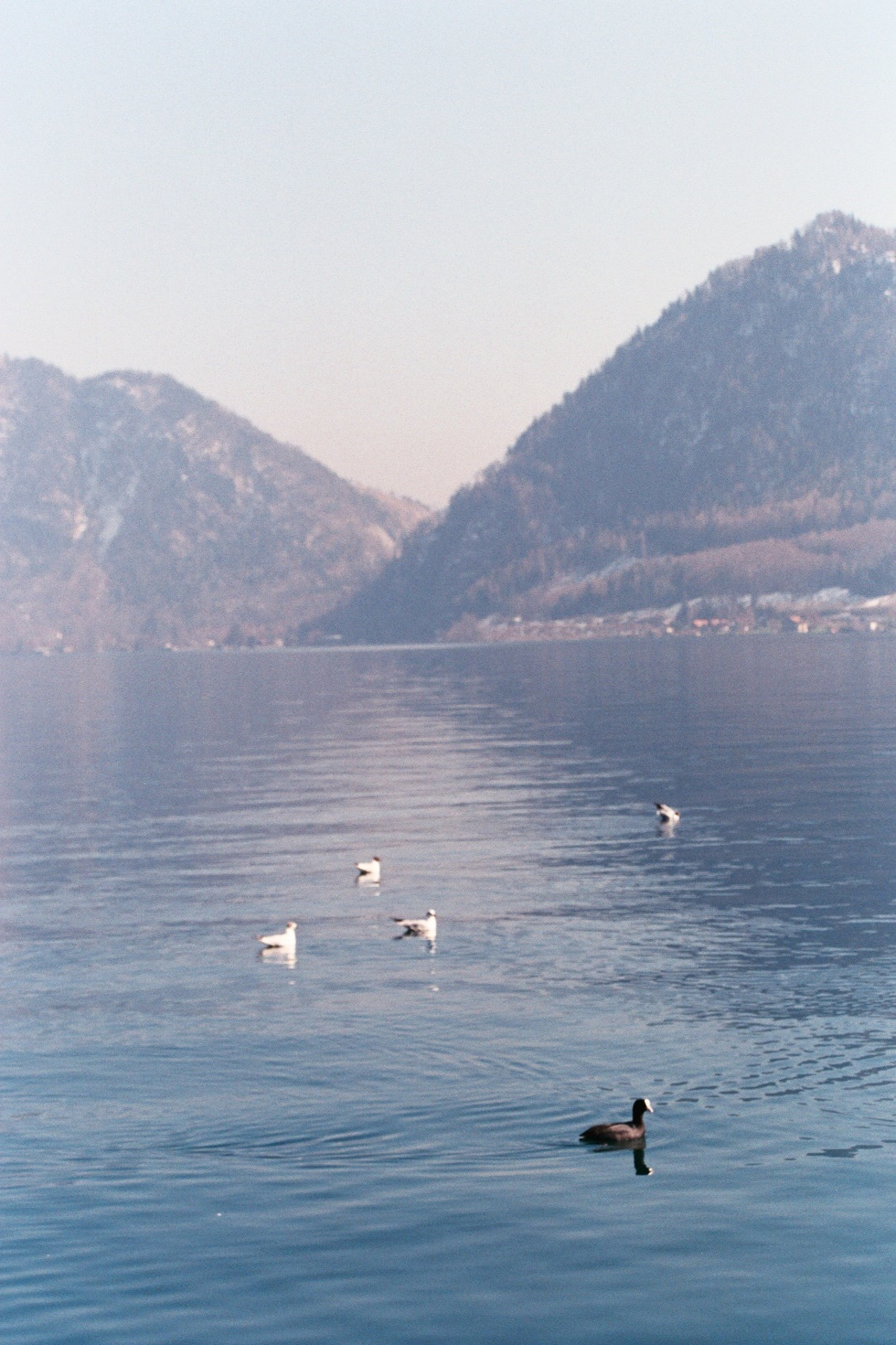 Attersee of Upper Austria